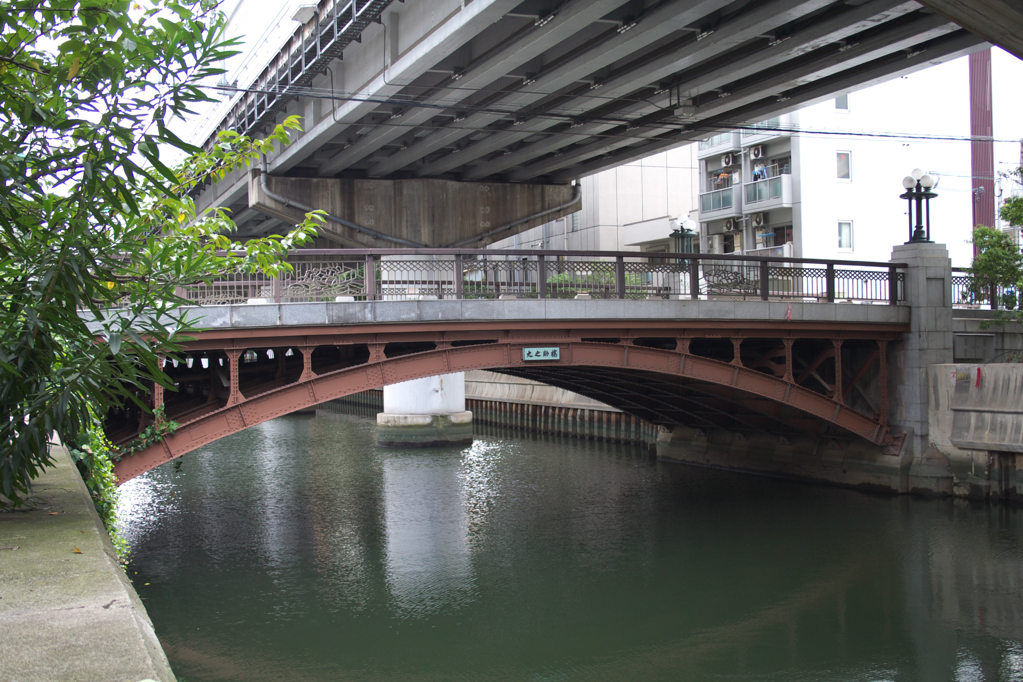 Kunosukebashi Bridge (Osaka City, JAPAN)